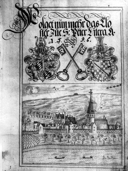 St. Peter's Cloister, Bad Kreuznach. Drawing of Jacob Lamb, 1596